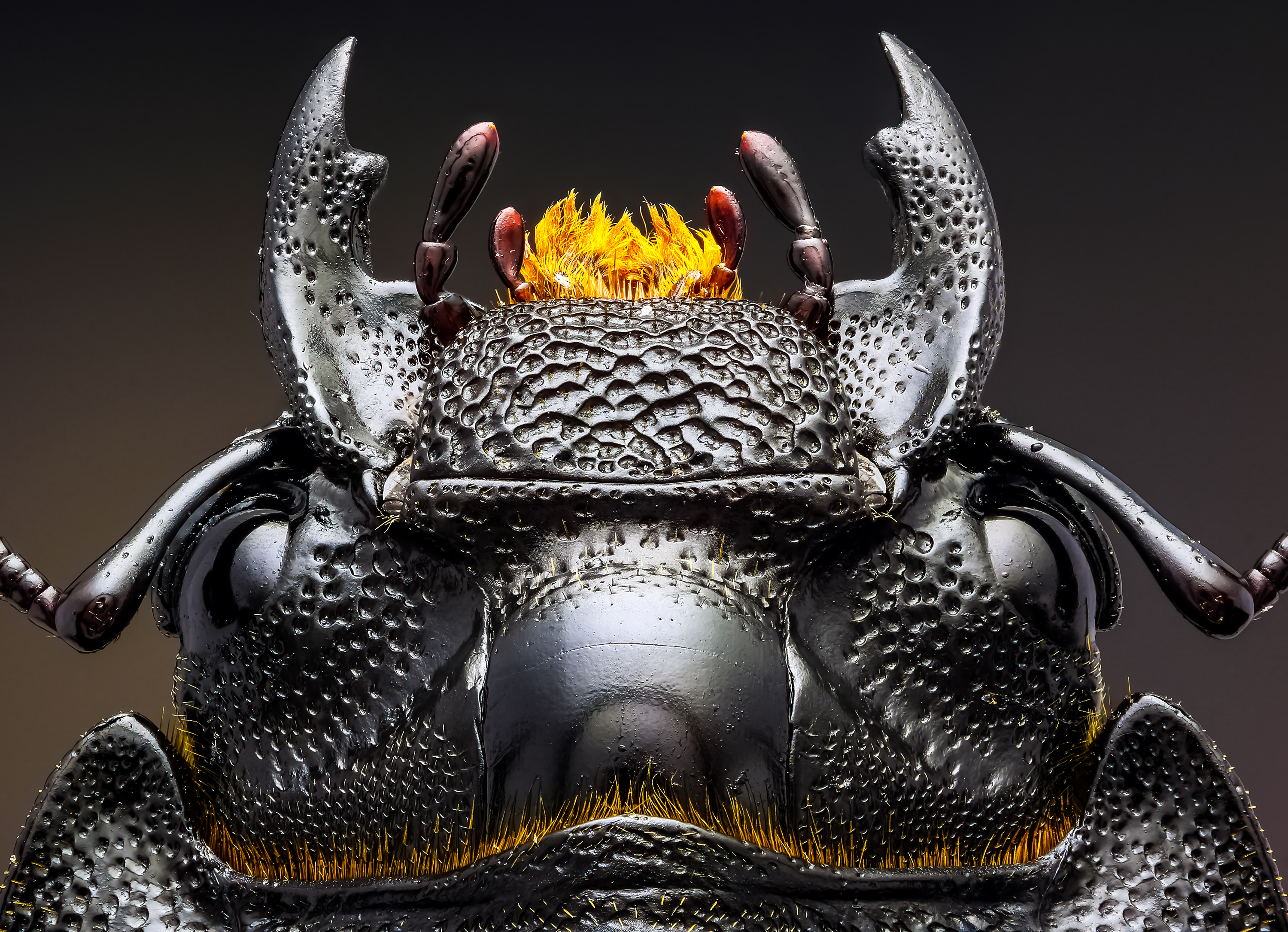 Studio stack of a found dead D. parallelipipedus. The beetle was found it in spring 2015 and was preserved in the fridge. Studio focus stack : 83 pictures taken with 7dmk2 + Tokina rmc 28mm.